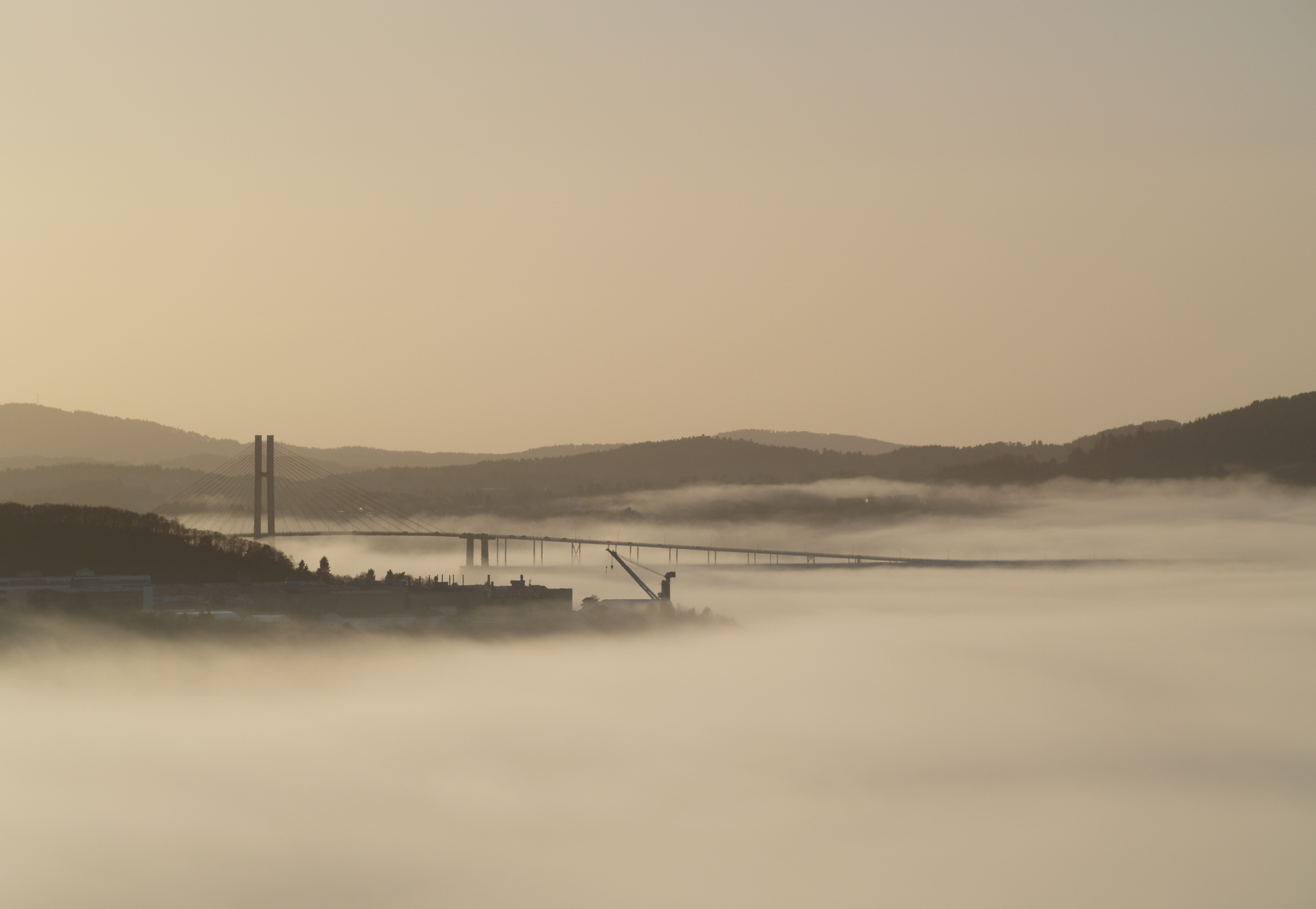 The bridge called Nordhordlandsbrua in Hordaland, Norway. Photo is only cropped, no further processing.